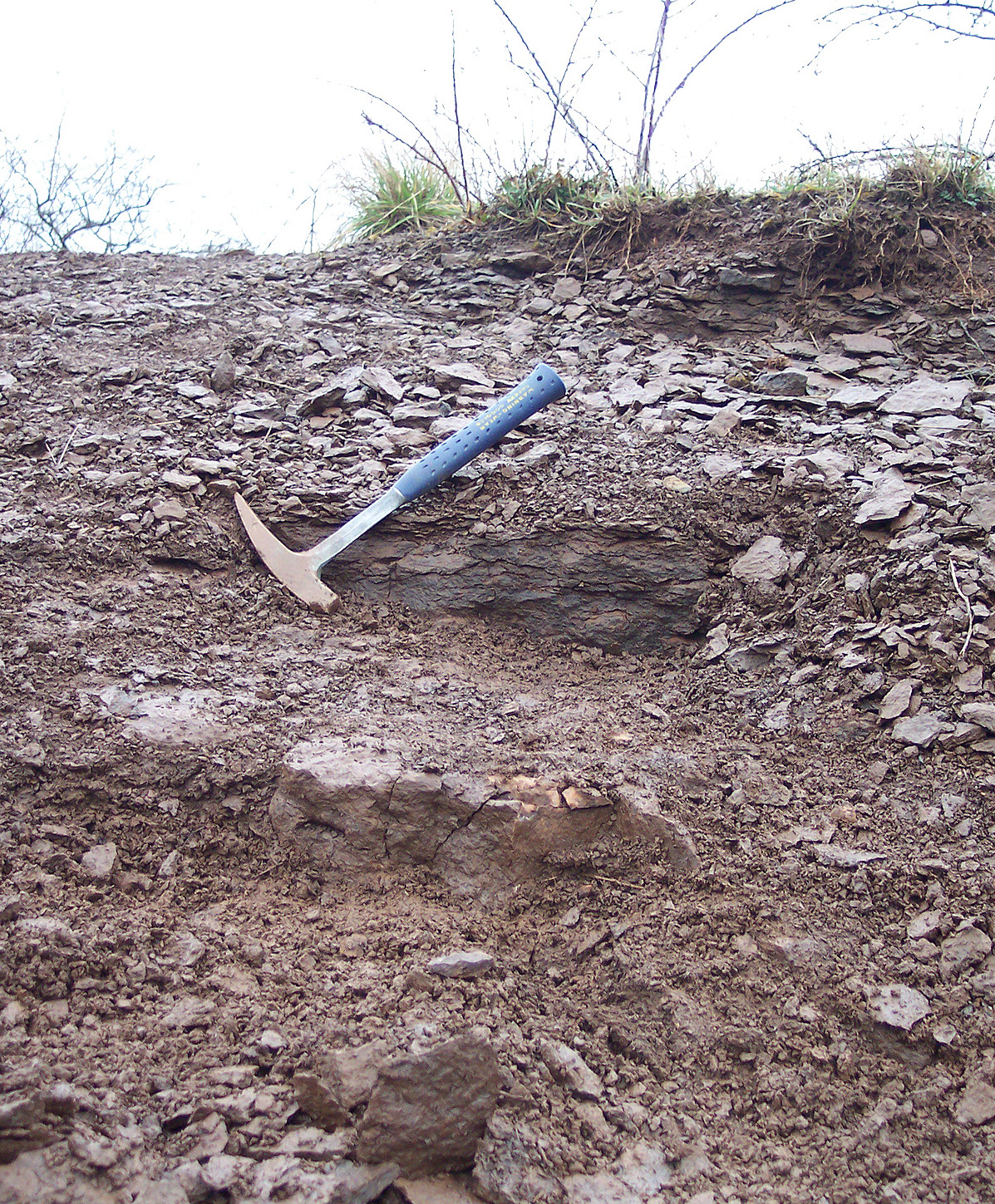 Early Jurassic (Lias γ, Pliensbachian) ferruginous limestone (the bed below the hammer) and marl (the bed ‘behind’ the hammer) in the cap rocks of the oolithic iron ore deposit at the village of Rottorf am Klei, Lower Saxony, Germany, largely obscured by weathered material of the same rocks.